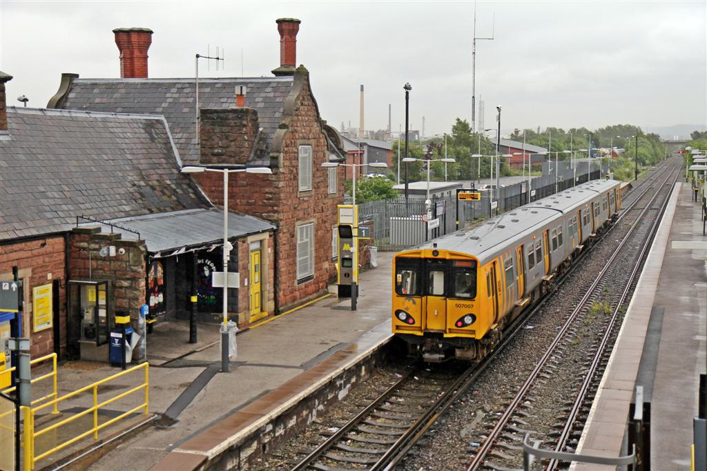 View from the footbridge, Ellesmere Port Railway Station